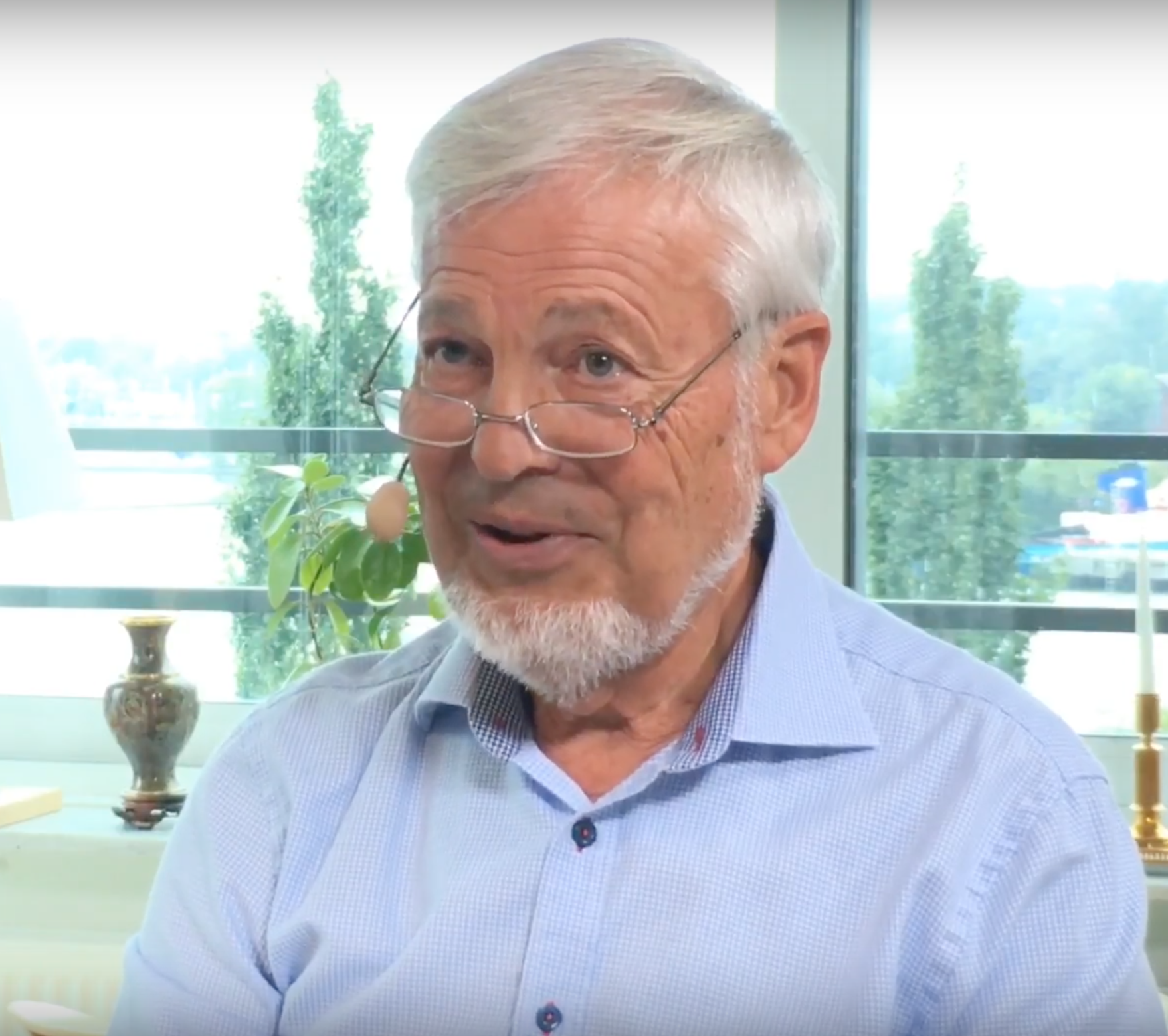 Torsten Cegrell, Swedish internet pioneer and professor in electrical engineering. Screenshot from a video interview made by Internetmuseum.